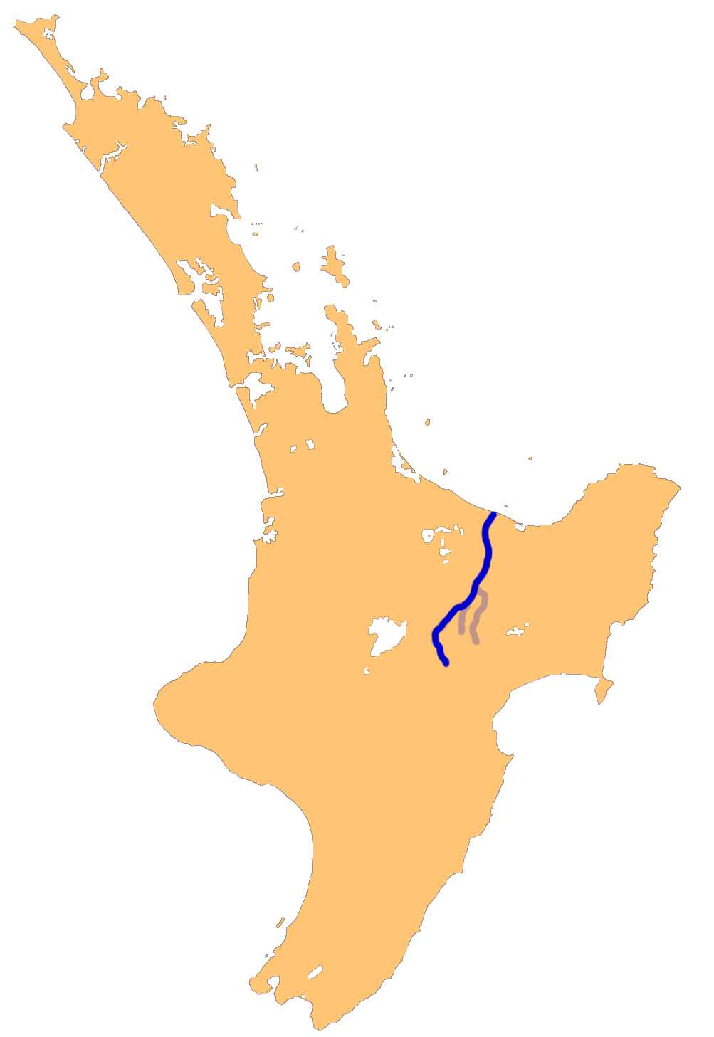 Location map of the Rangitaiki River, New Zealand